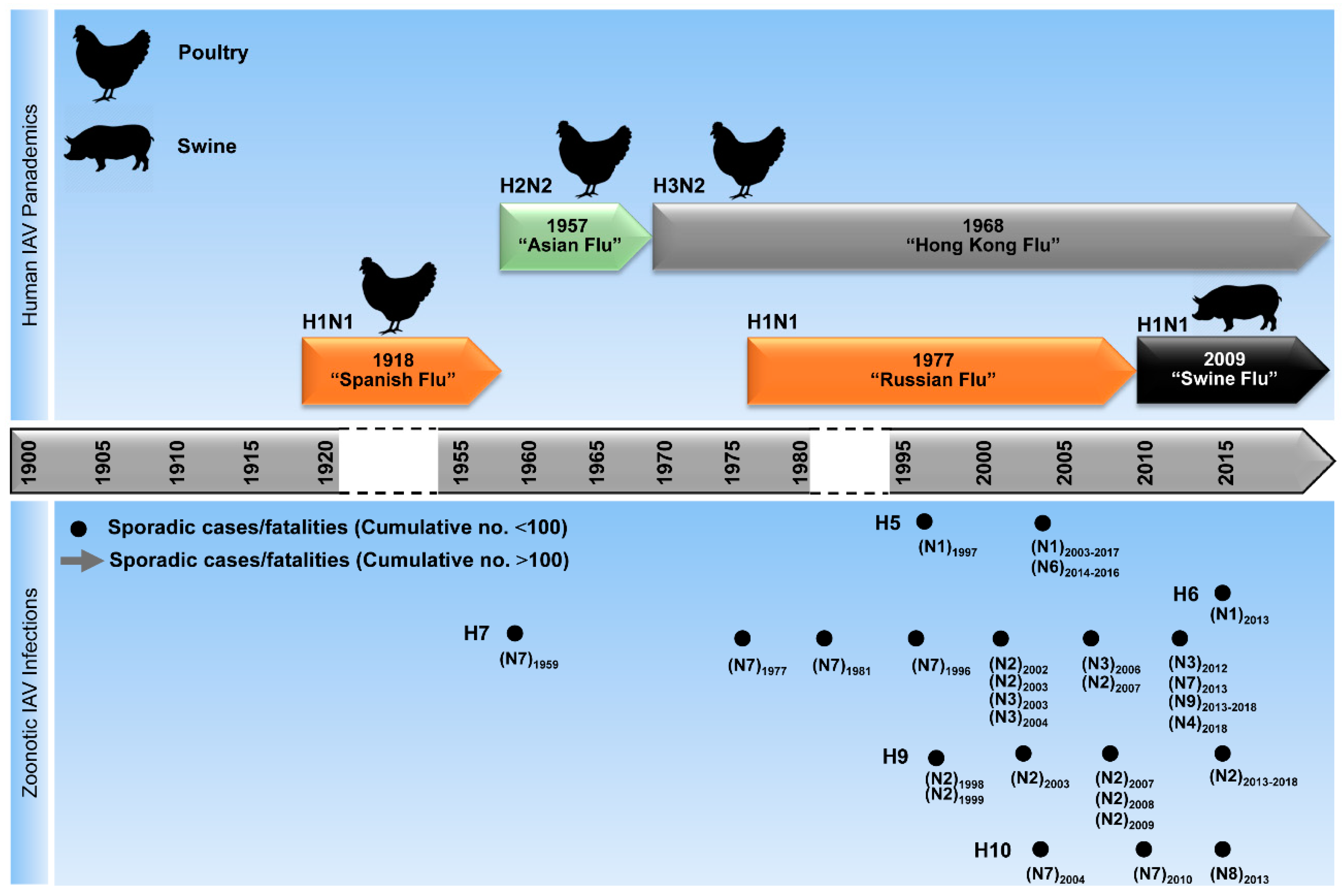 Timeline showing influenza pandemics and epidemics caused by IAVs. The “Spanish Flu” of 1918 was the most devastating influenza pandemic in the 20th century and was likely caused by a zoonotic transmission of an H1N1-type IAV from poultry to humans. This strain disappeared in 1957 when the influenza virus A/H2N2, a reassortant of the H1N1 virus and other avian IAVs, appeared and led to the second influenza pandemic—the “Asian Flu.” In 1968, H3N2, a novel reassortant strain between the H2N2-type and an H3-type virus, displaced the H2N2 strain in the human population and led to the “Hong Kong Flu”—the third influenza pandemic. In 1977 the H1N1 strain reemerged, resulting in the “Russian Flu”. In 2009, a new H1N1 reassortant was transmitted from swine to humans leading to the first pandemic of the 21st century—the “Swine Flu.” In parallel, different avian influenza A virus strains (H5-, H6-, H7-, H9-, and H10-types) have occasionally crossed the host barriers causing mild-to-fatal infections in humans.